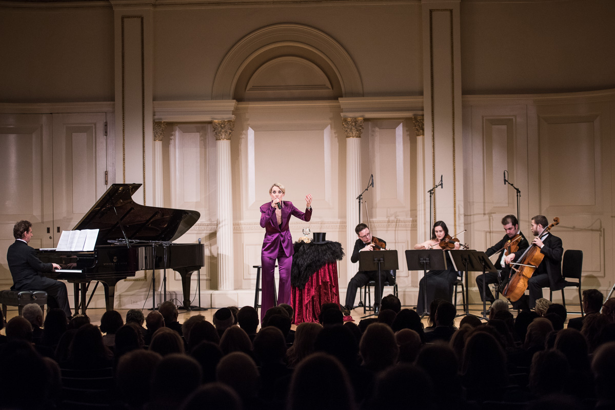 Stage photo, Tehorah, Weill Hall, Carnegie Hall, New York City, USA